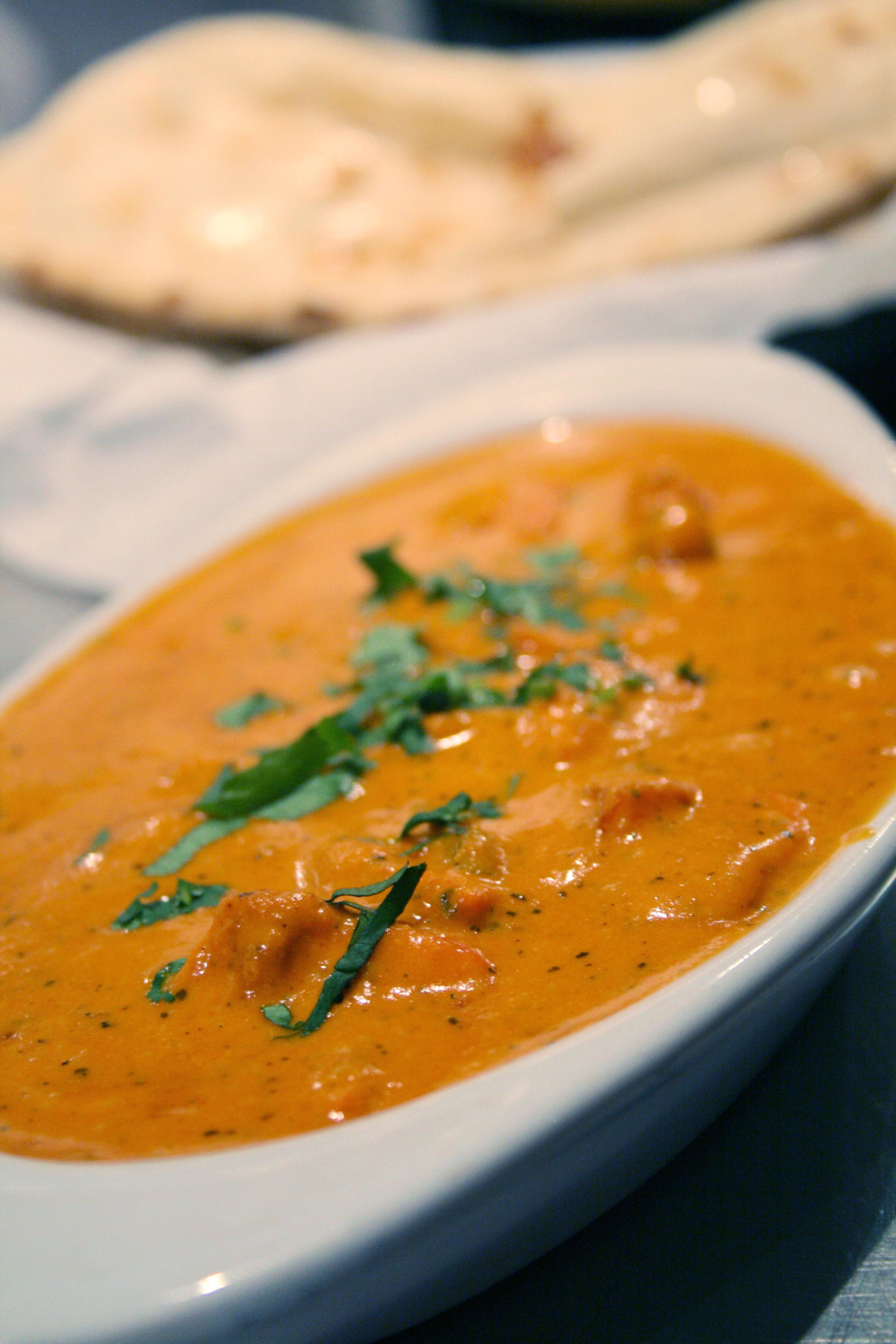 Chicken Tikka Masala and Naan